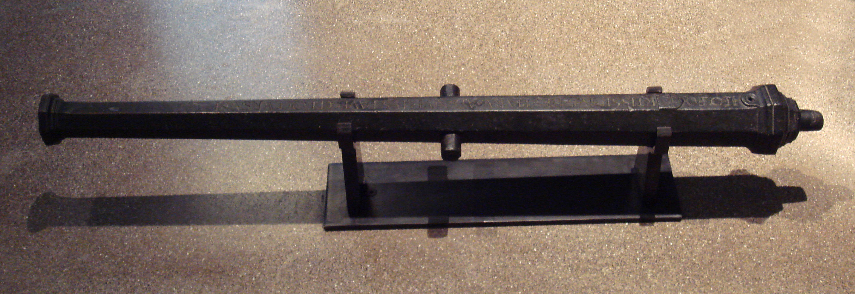 Fauconneau Length: 1.06m, cal 32mm, weight: 25.4kg, iron projectile. Circa 1510.